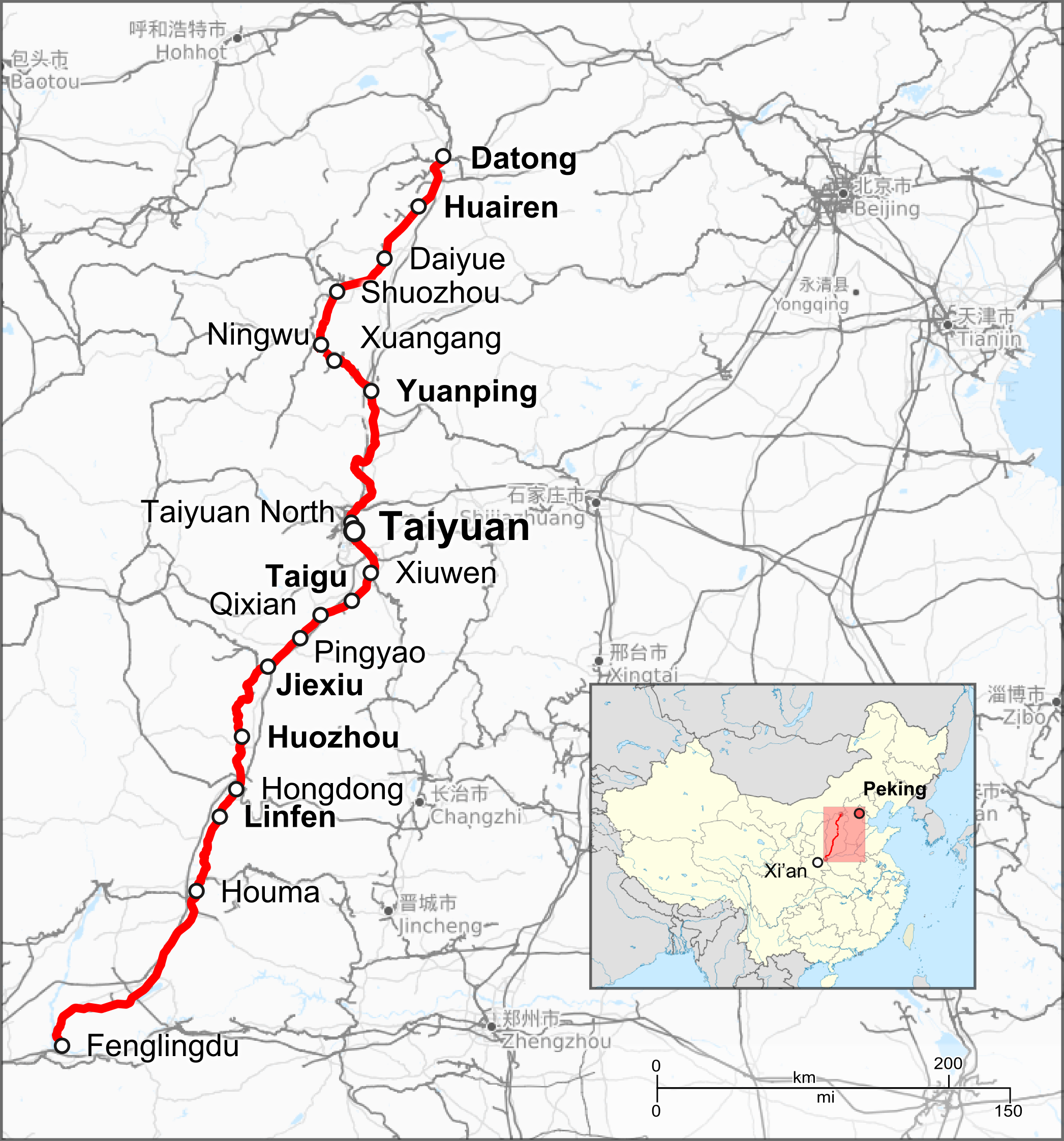 Datong-Puzhou Railway line with some important stations